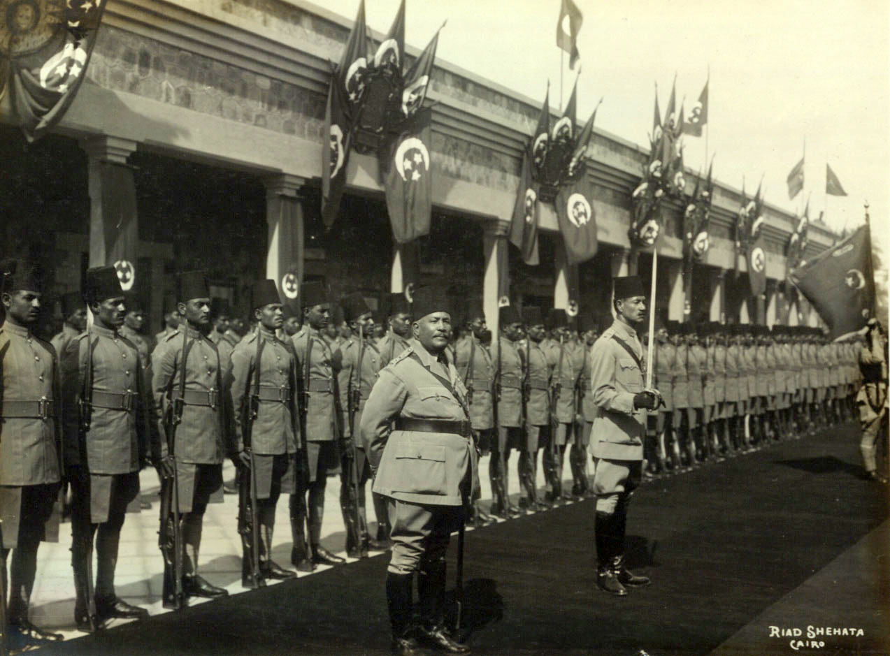 Honor guard greeted guests at the opening of the Luxor - Aswan on the platform of the Aswan station